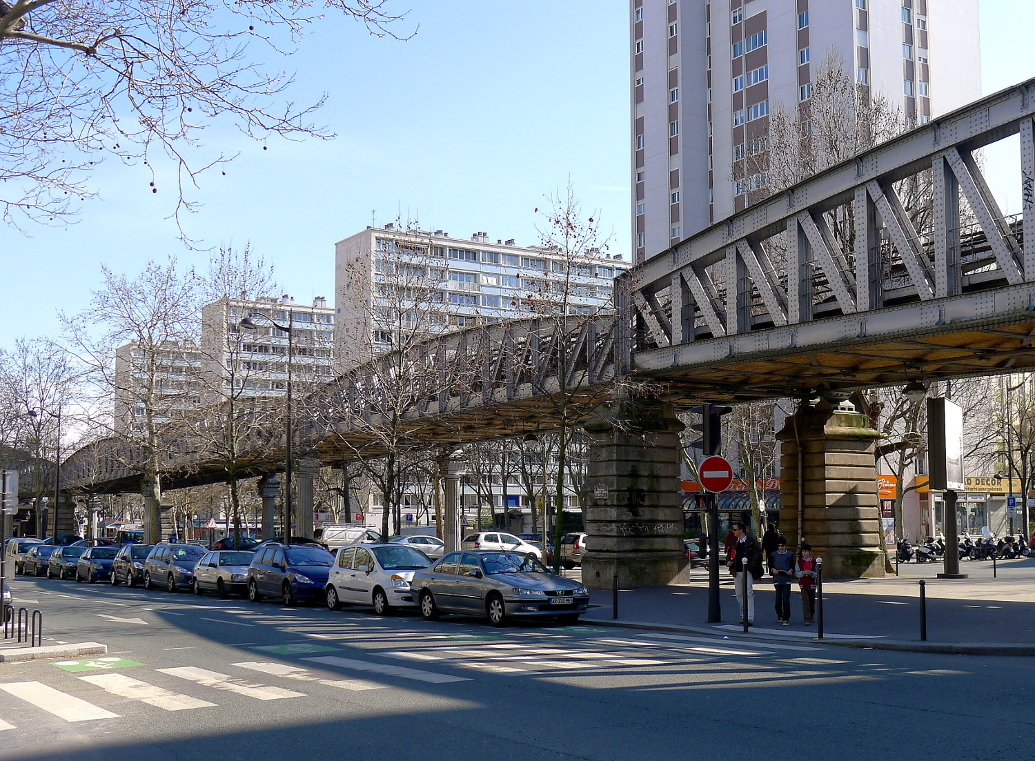 Saint-Jacques boulevard - Paris.